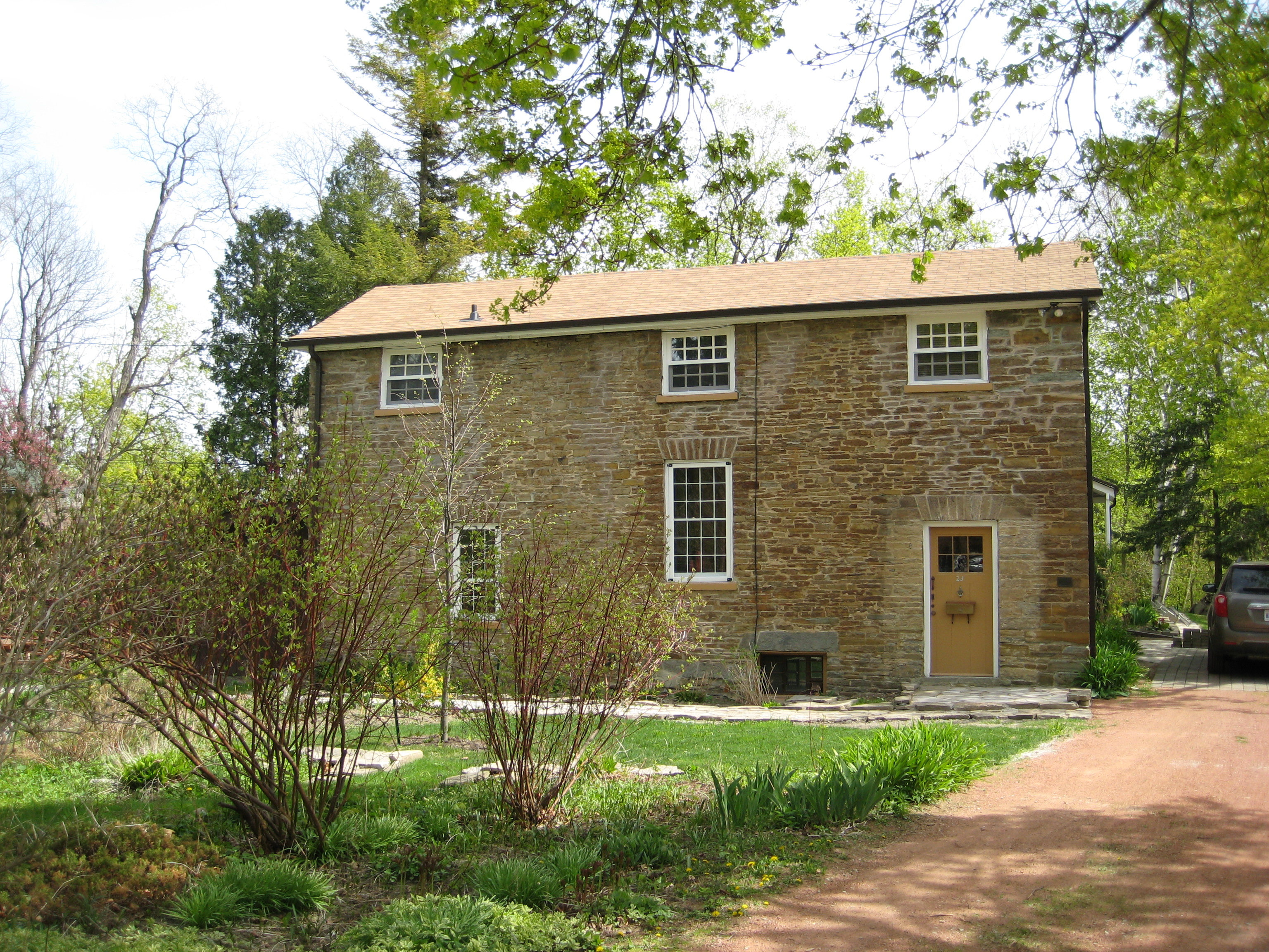 Elm Bank Farm First House. This house was built in 1808 and owned later by John Grubb who built a second house on the property in 1834.